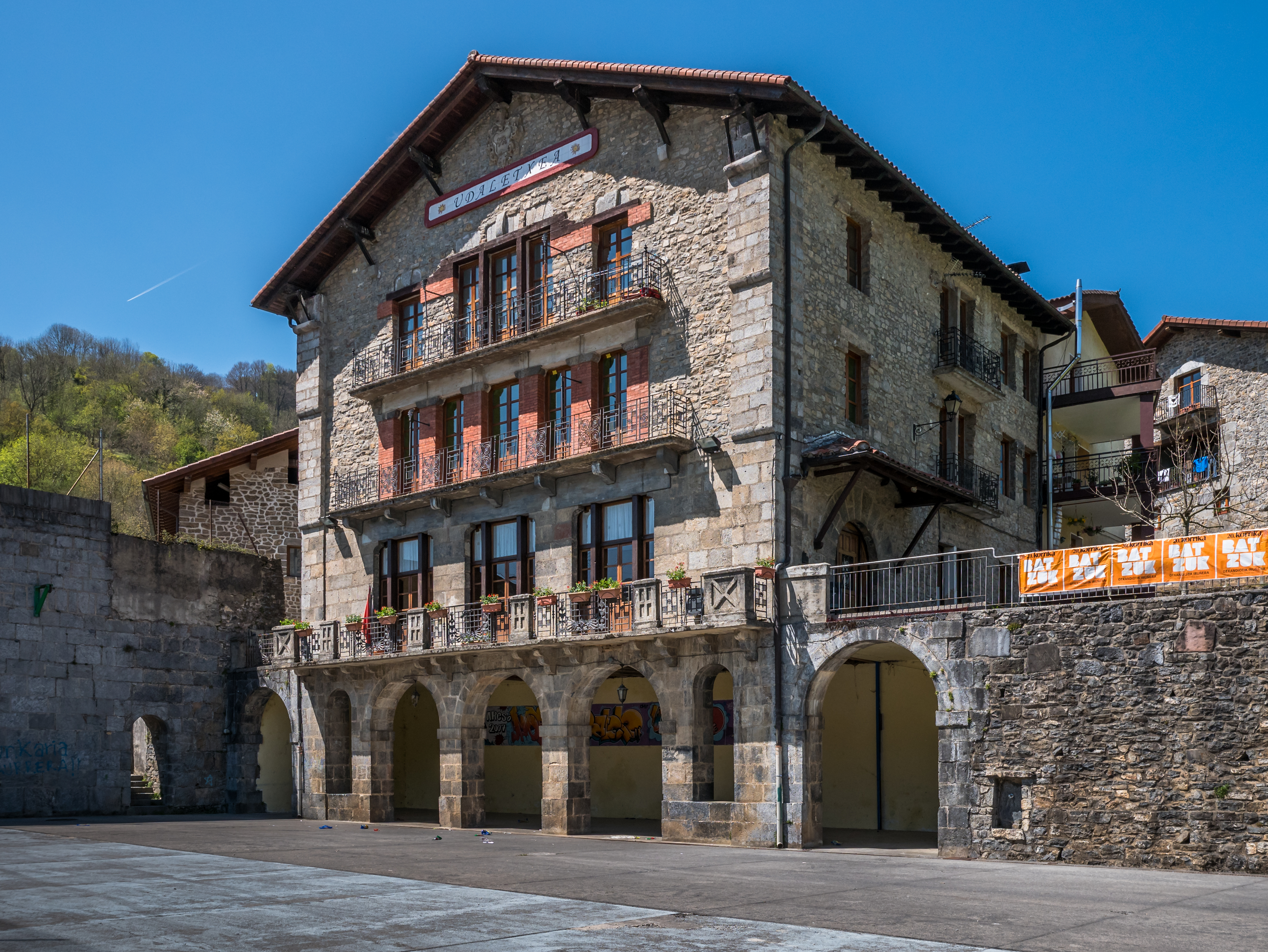 Town hall of Areso, Navarre, Spain